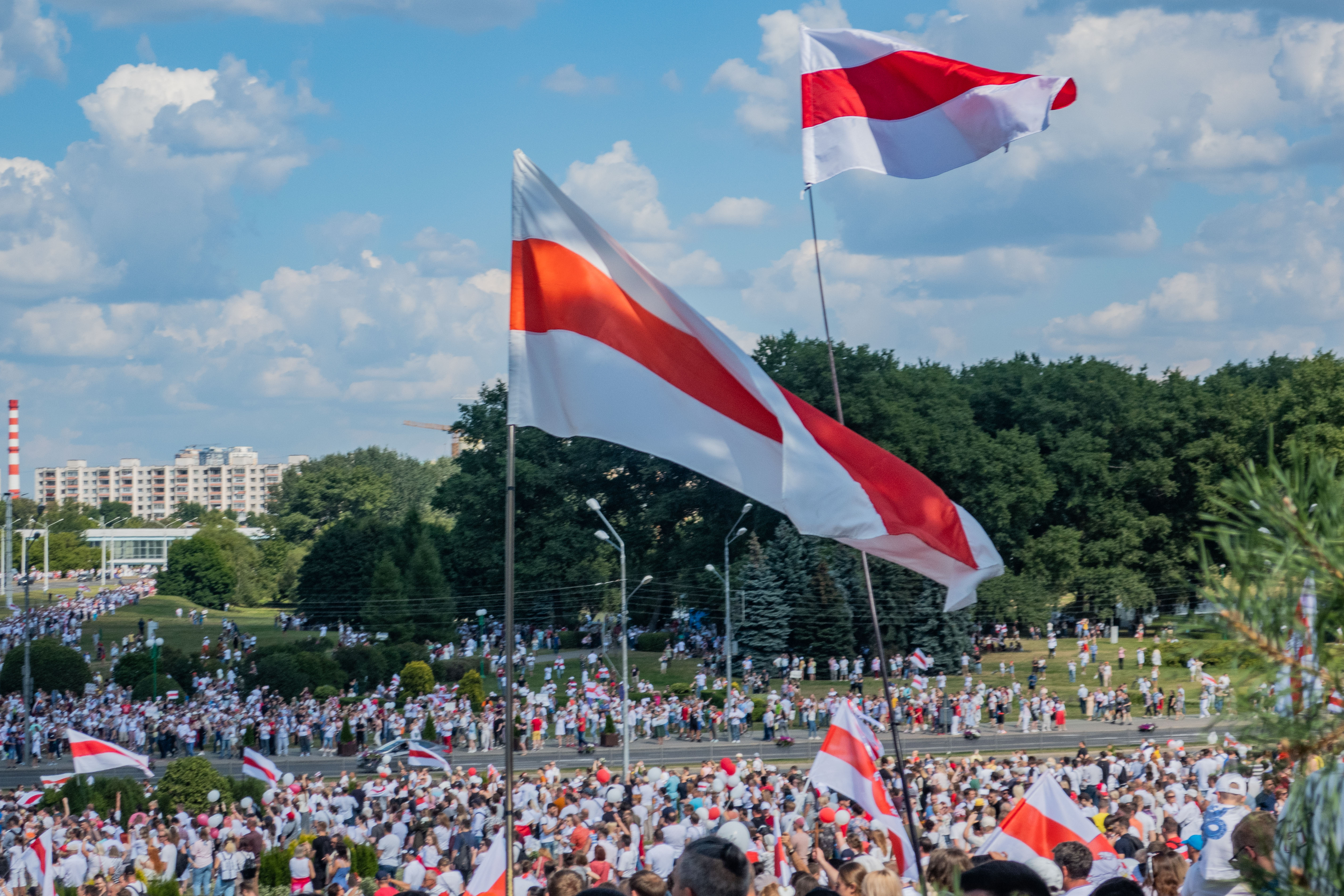 Protest rally against Lukashenko, 16 August. Minsk, Belarus